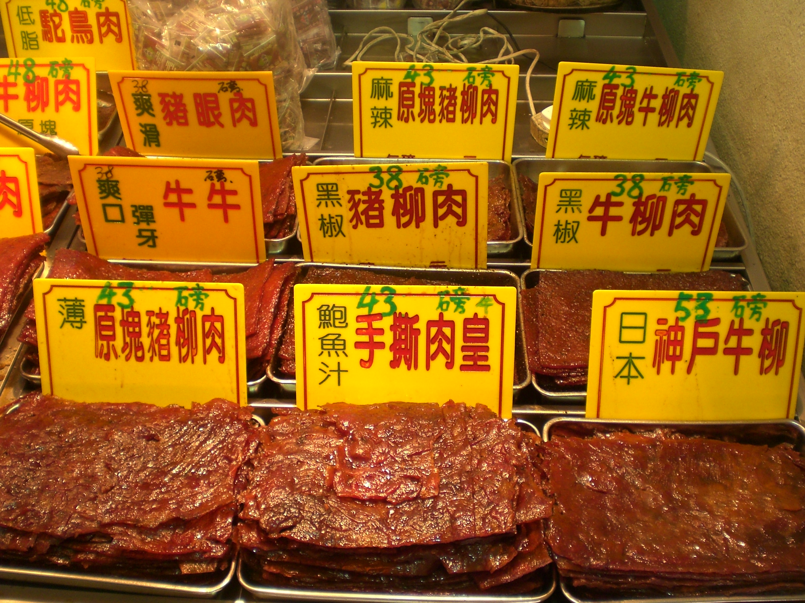 牛肉及豬肉產品 Author= Mo707